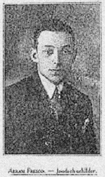 Abraham Fresco